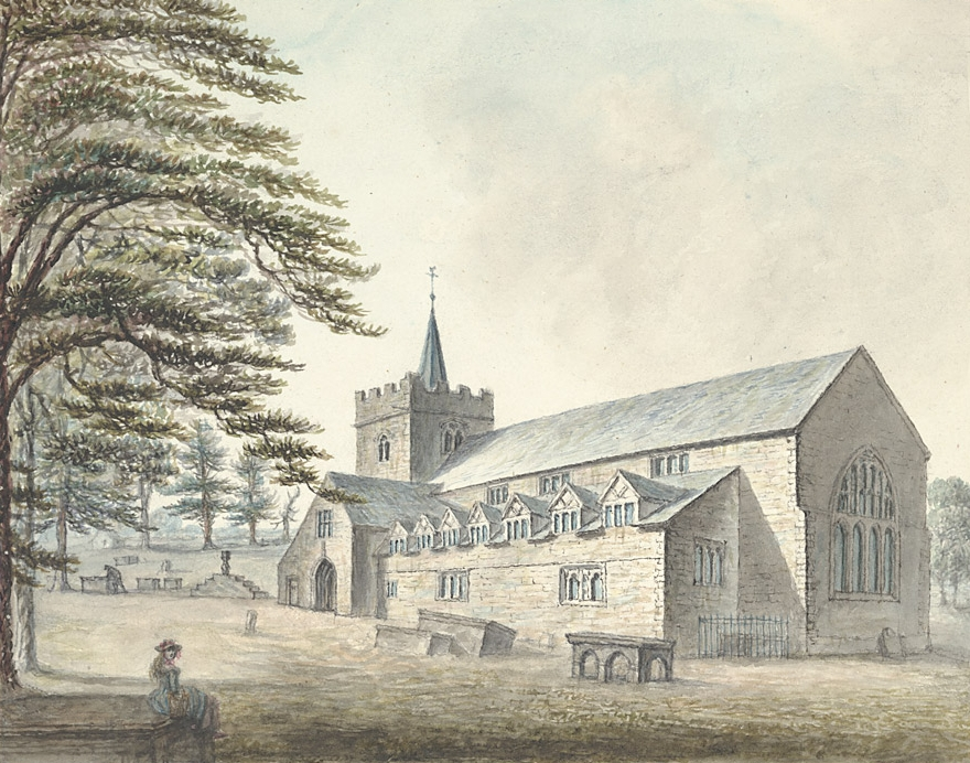 Gillesfield near Welch Pool, 1796